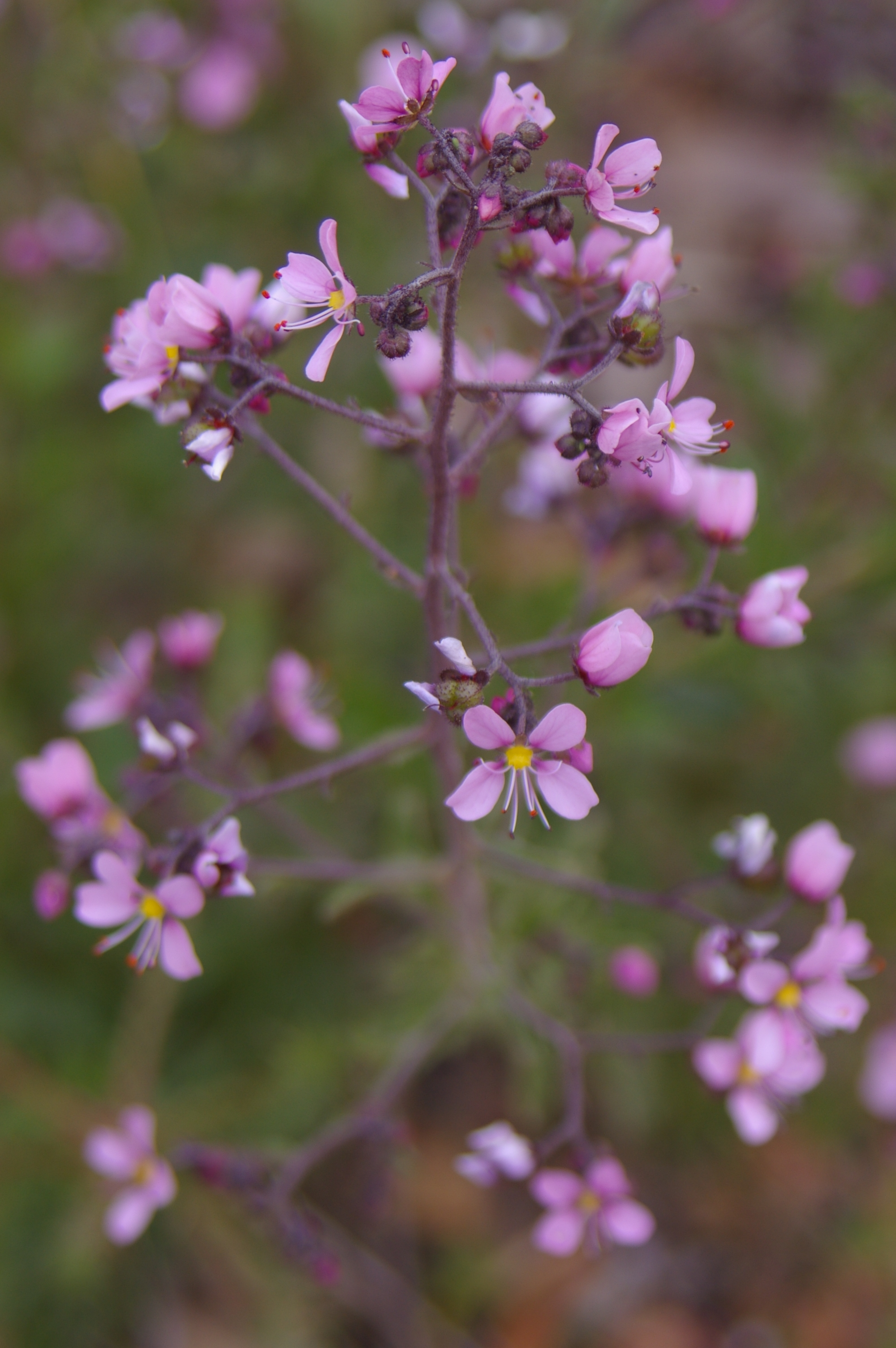 Diplopeltis huegelii photographed in the Gooseberry Hill National Park